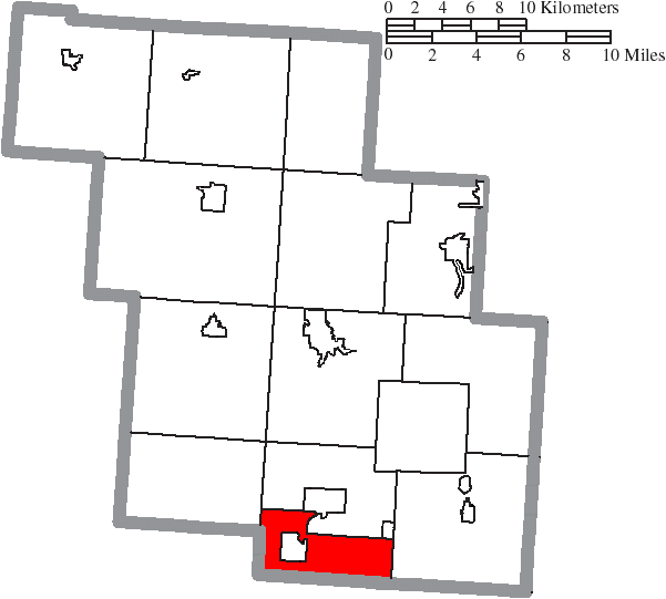 Map of the municipal and township boundaries of Perry County, Ohio, United States, as of the 2000 census, with the location of Coal Township highlighted. Township borders are shown only in unincorporated areas in order to differentiate incorporated and unincorporated areas more clearly.